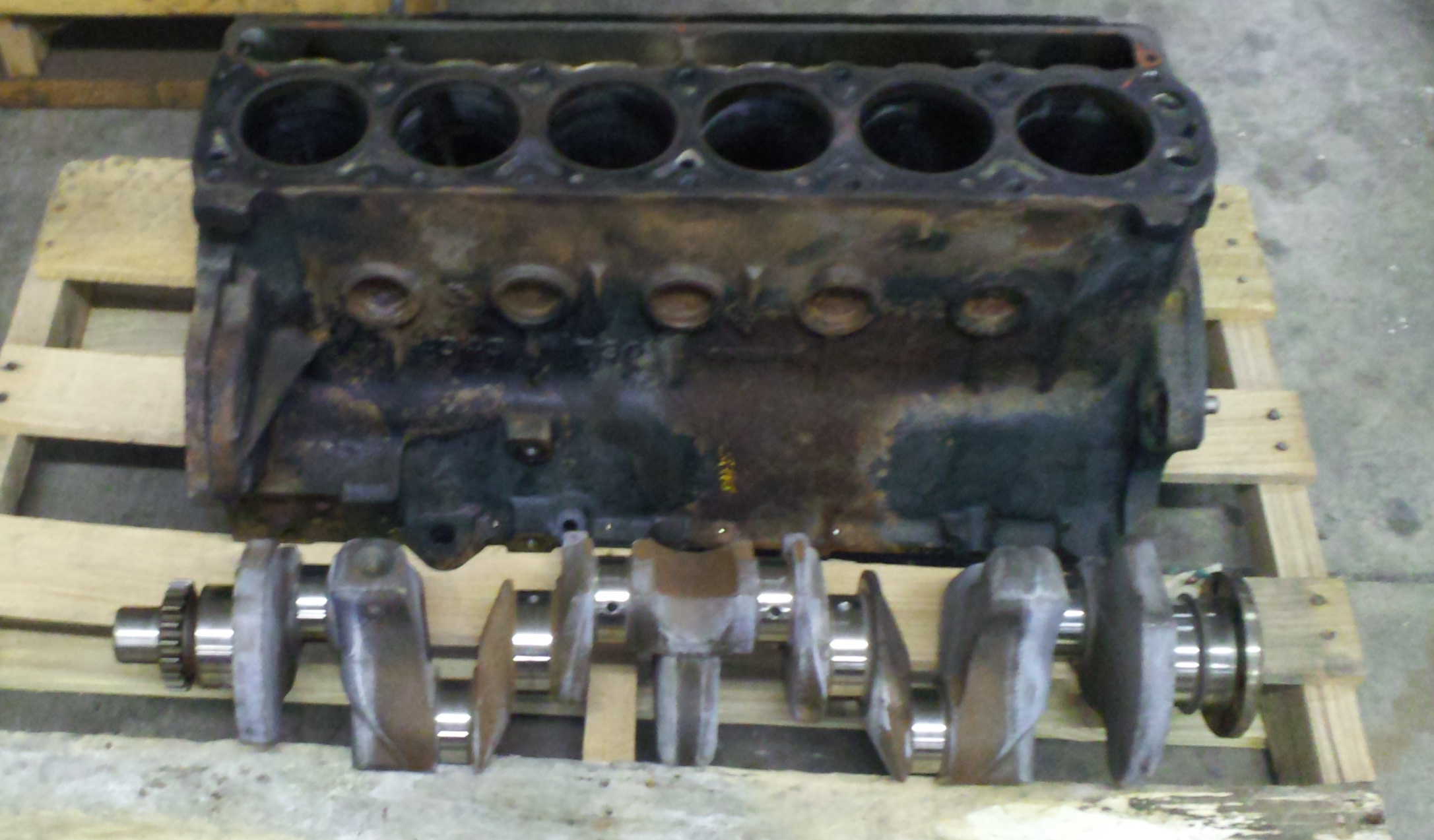 Inline 6 block and crank